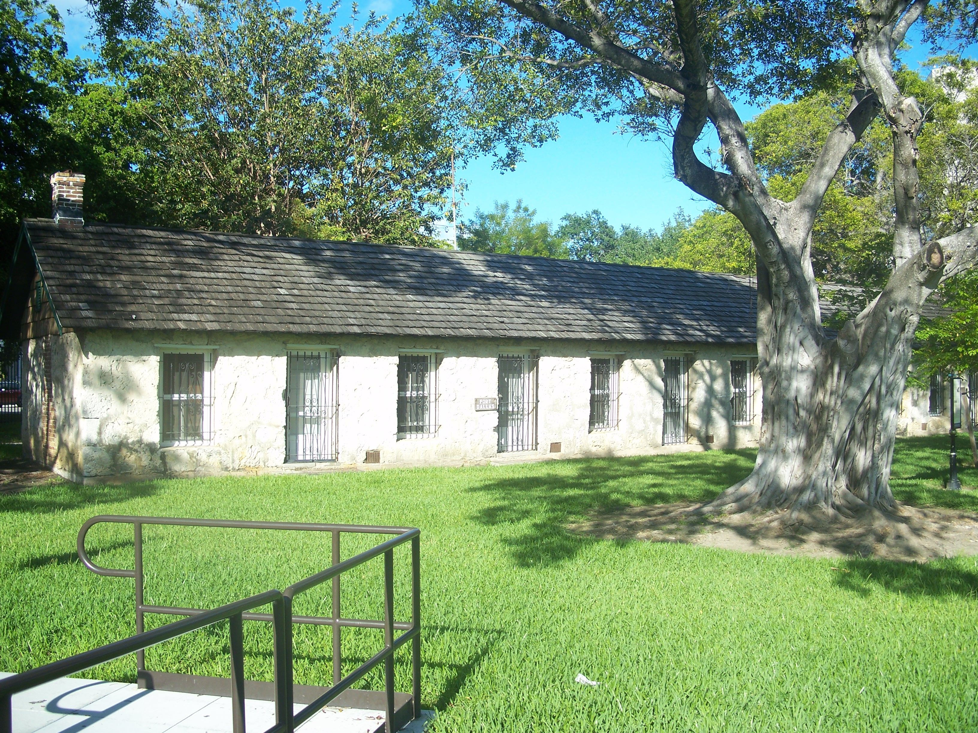 Miami, Florida: Lummus Park Historic District: Old plantation slave quarters, moved here from the Fort Dallas area